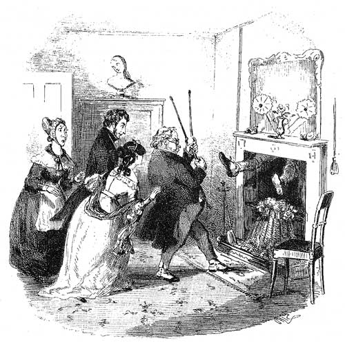 Illustration for Nicholas Nickleby by Hablot Browne